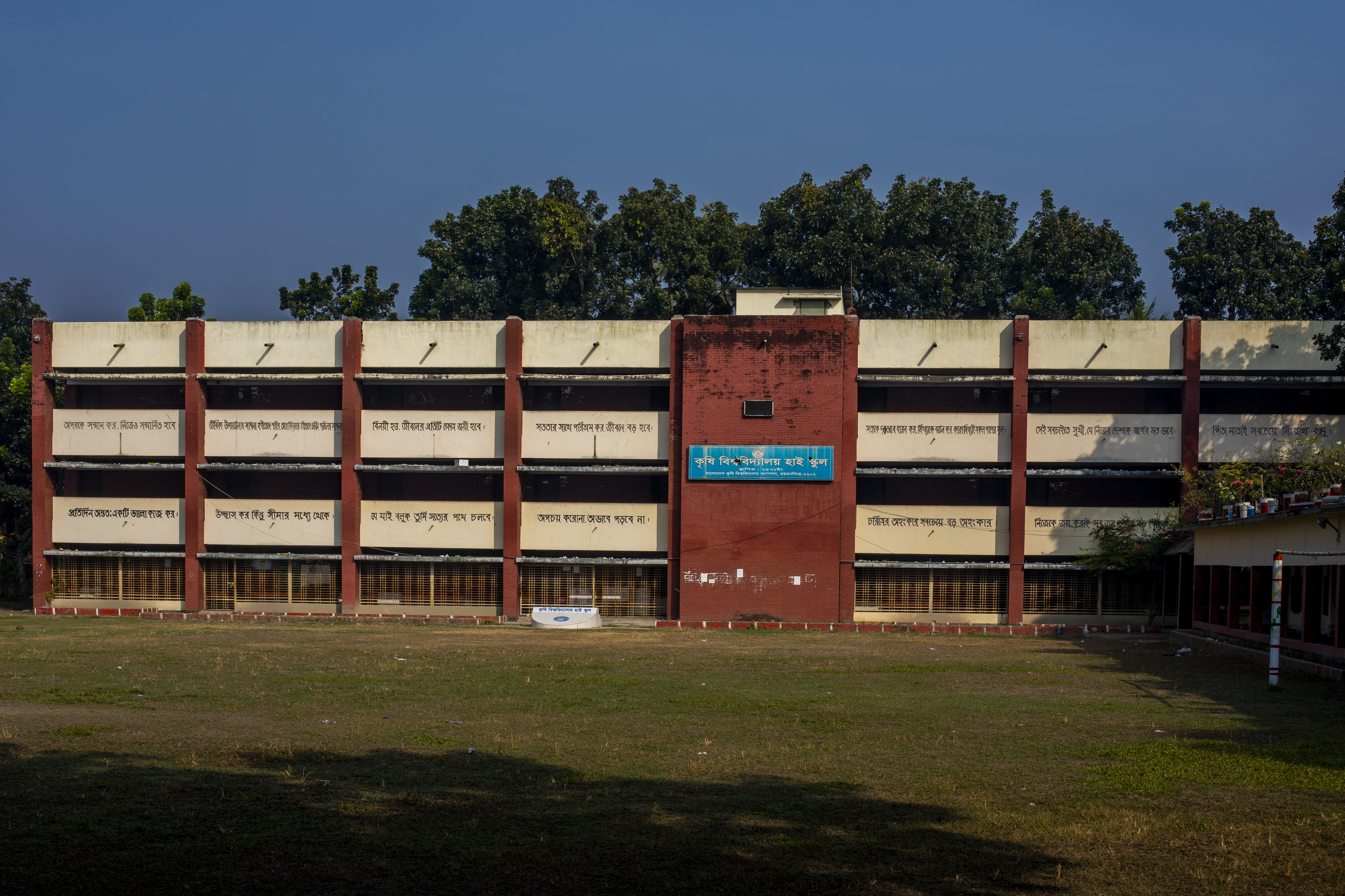 K B High School